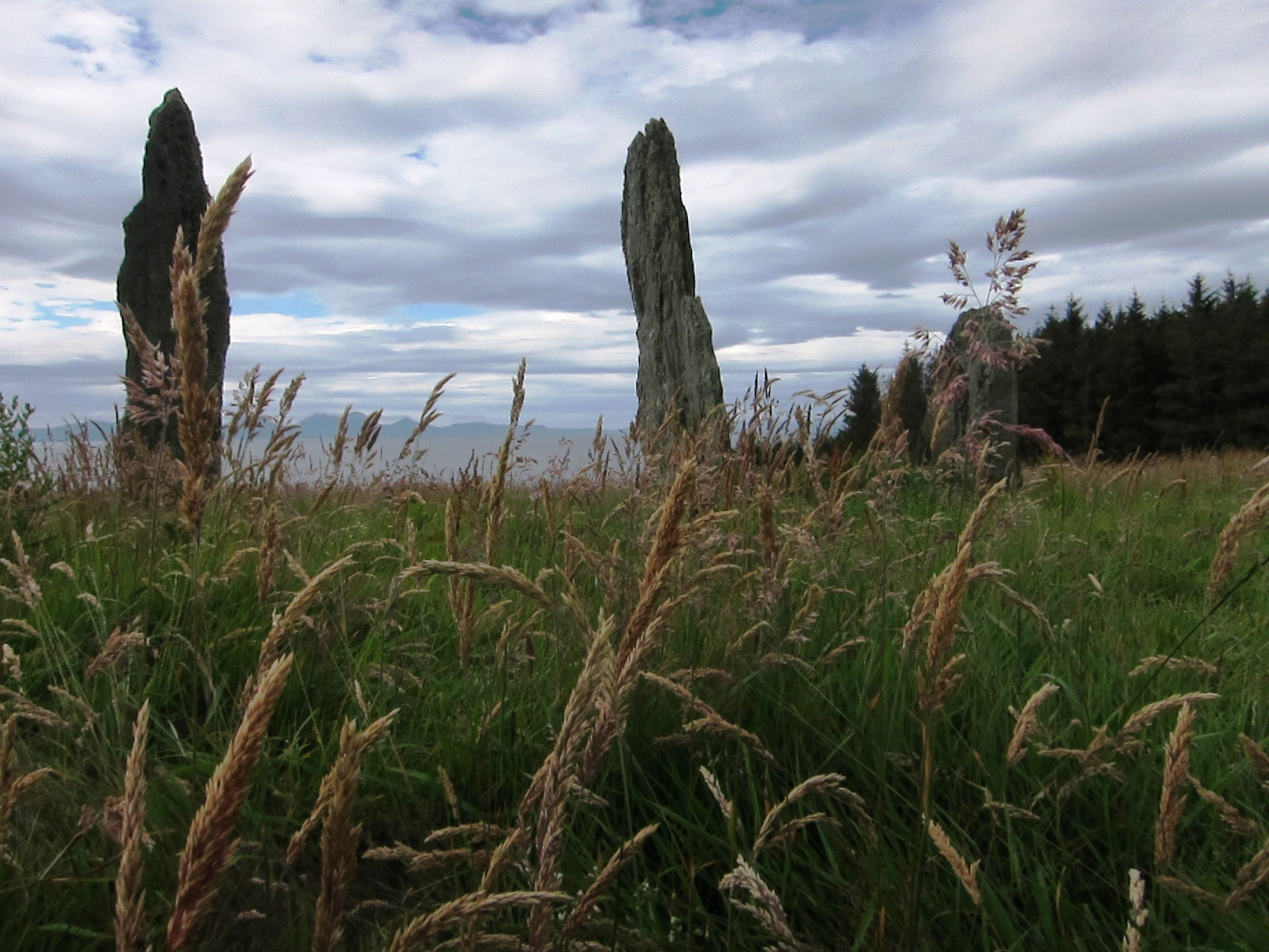 Menhir at Ballochroy with Jura in the background